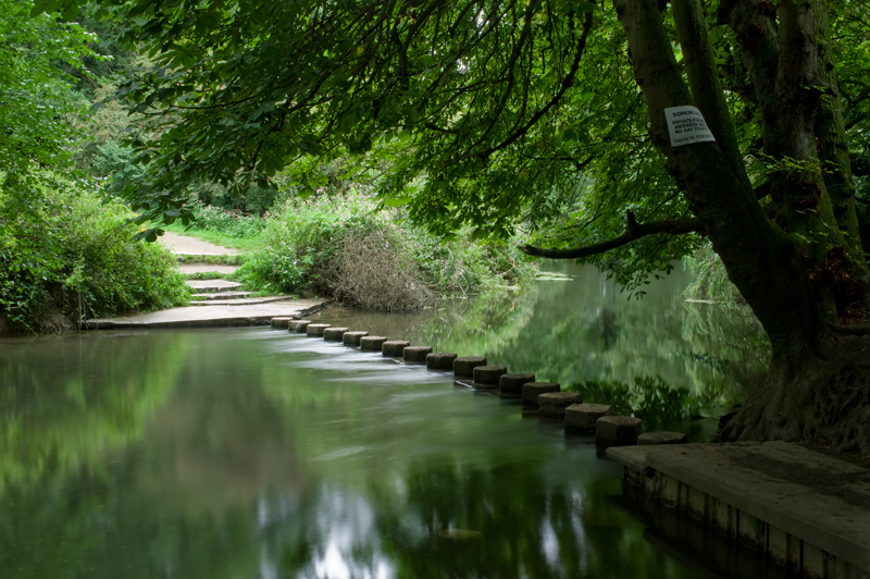 This is the start of the walk up Box Hill, a scenic National Trust spot in Surrey overlooking the Downs. Box Hill is a well known beauty spot in the North Downs of Surrey, England, close to the southern outskirts of London, overlooking Dorking to the south-west. There is a small village of the same name about 1.5 kilometres (0.93 mi) to the east. The hill is named after the box trees which can be found on its steep southern and western flanks, notably around the "Whites", chalk cliffs cut by the River Mole - which you can see in the picture. This stepping stone is a very busy place and in summer it's almost impossible to find a quiet moment in which to take a photo! The funniest thing is when walkers with dogs cross the stones - half the dogs run up to the stones, brake suddenly and then give an incredibly quizzical 'and what am I supposed to do now' look, whilst the other half just leap in the water. Great fun =)